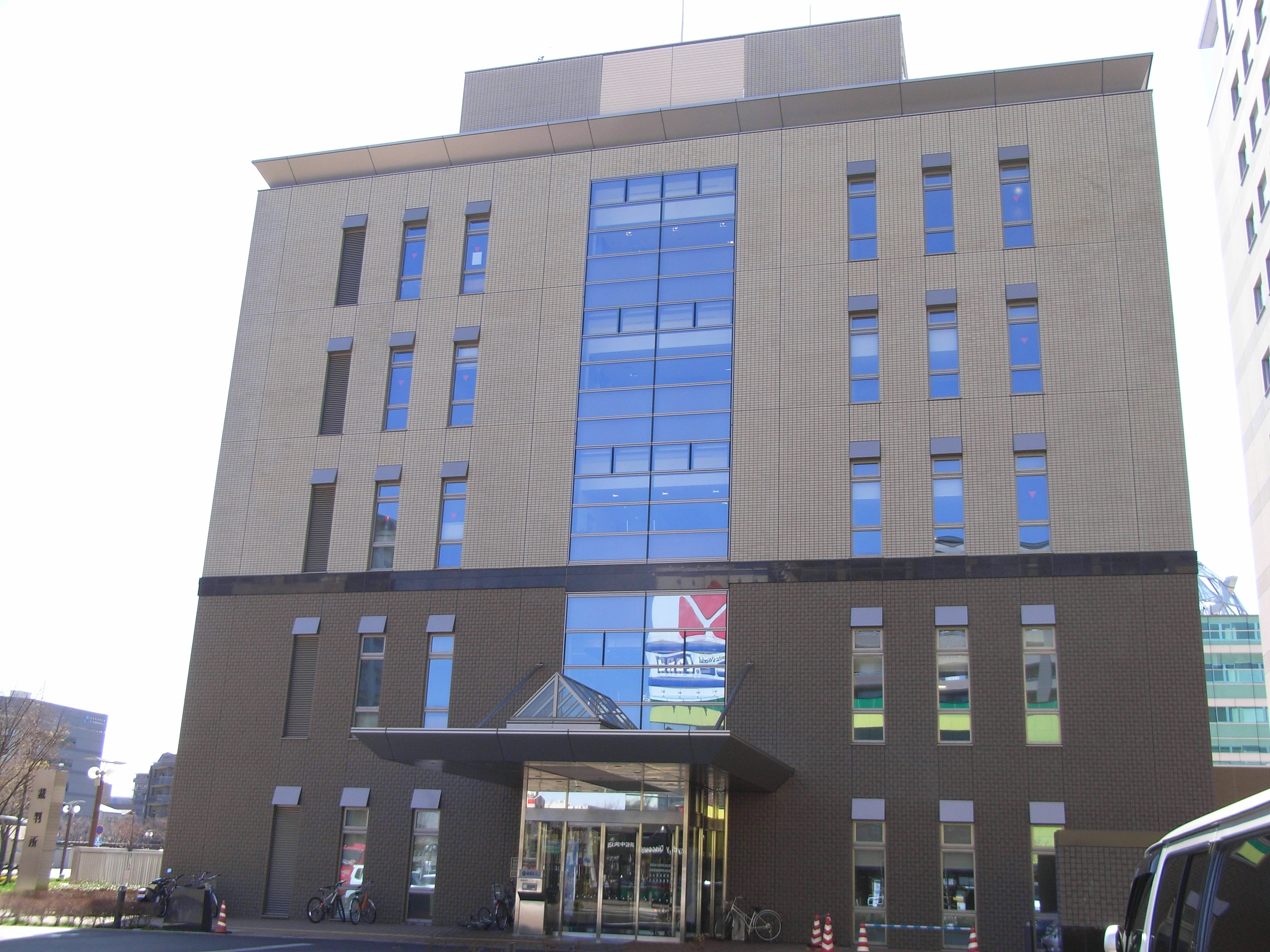 Hamamatsu Branch, Shizuoka District Court Hamamatsu Summary Court Hamamatsu Branch, Shizuoka Family Court